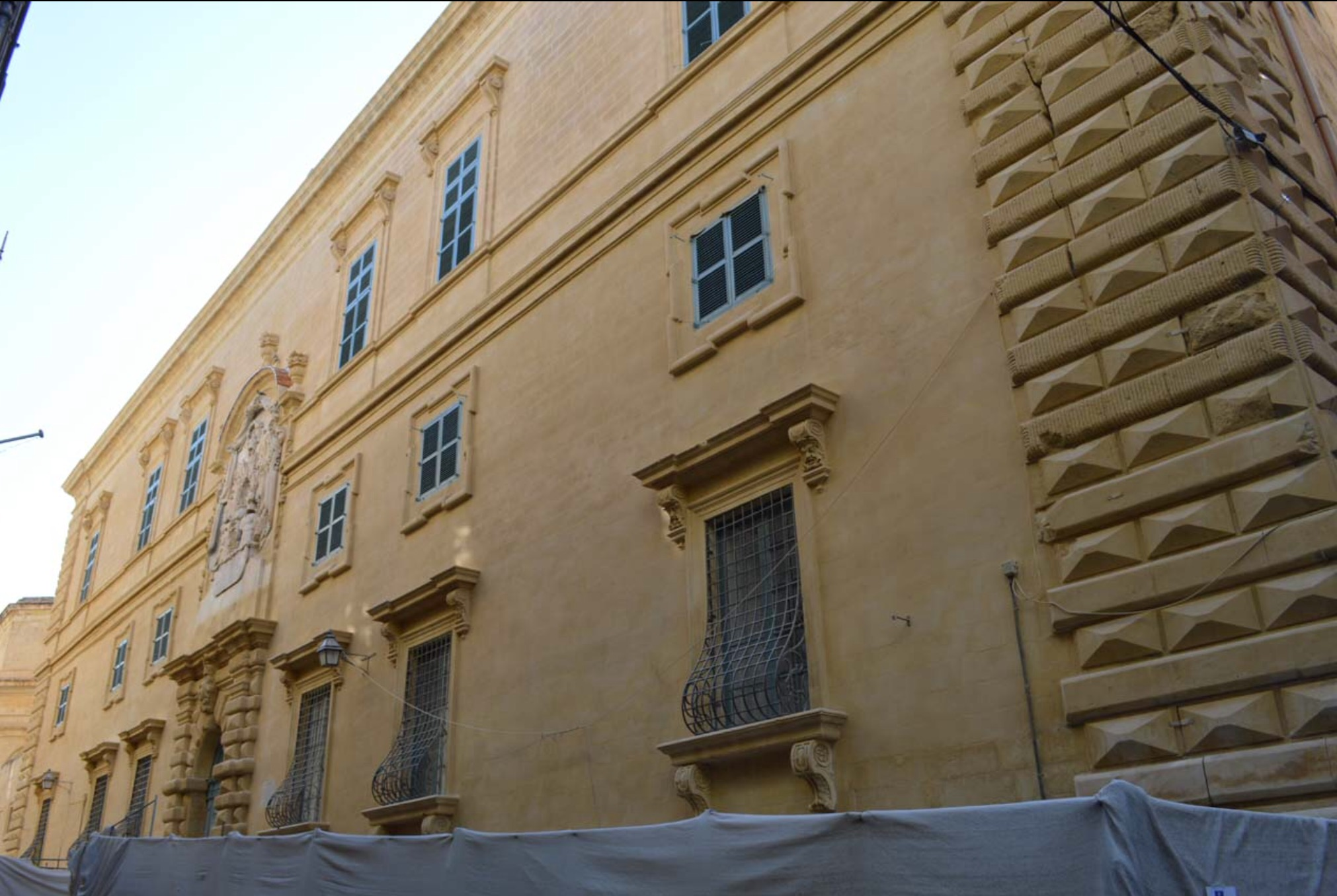 Auberge d'Italie after front façade restoration